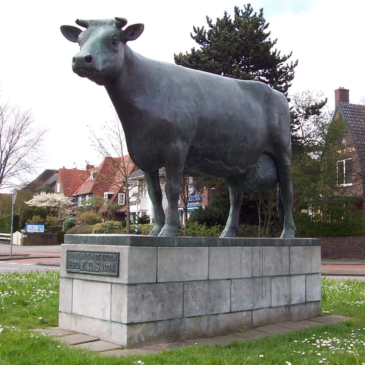 Leeuwarden, ûs mem (our mother), statue made by Gerhardus Jan Adema in 1954Frysk: Ljouwert, ûs mem, stânbyld fan Gerhardus Jan Adema, 1954